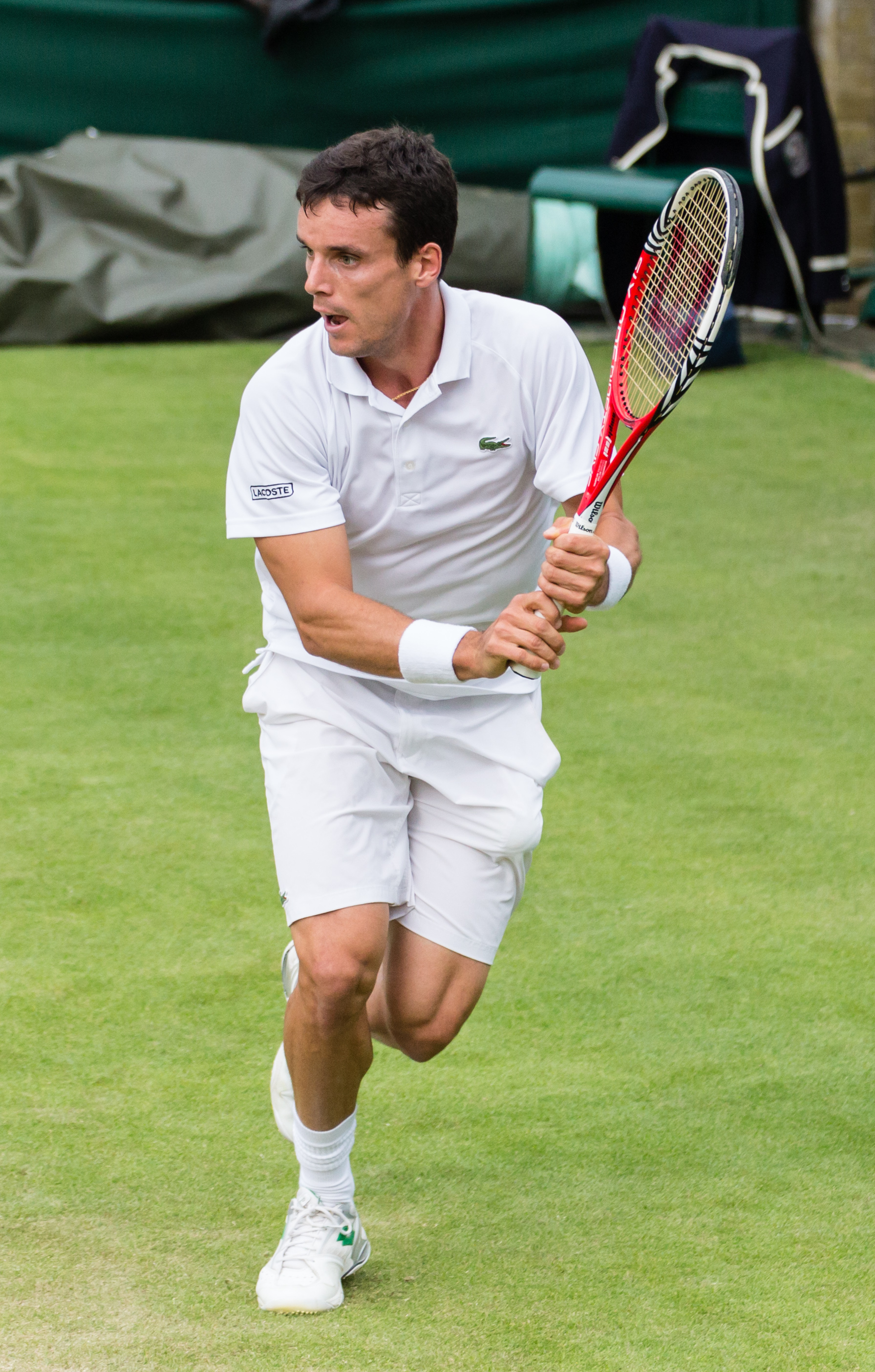 Roberto Bautista-Agut in the first round at Wimbledon in 2013.